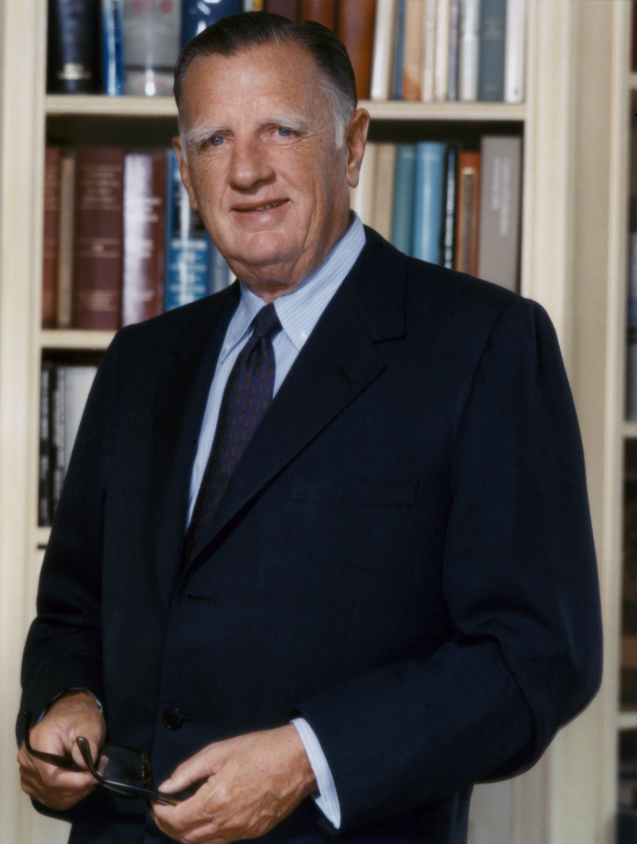 Title: Portrait: Benno C. Schmidt Description: Portrait of Benno Schmidt who was the former Chairman of the President's Cancer Panel from February 1972 - February 1978, Managing Partner, J.H. Whitney & Company Subjects (names): Schmidt, Benno Topics/Categories: Historical -- People National Cancer Institute -- People People -- Professional Type: Color Source: National Cancer Institute (NCI) Author: Unknown Date Created: Unknown Date Added: 2/26/2010 Reuse Restrictions: None - This image is in the public domain and can be freely reused. Please credit the source and/or author listed above.